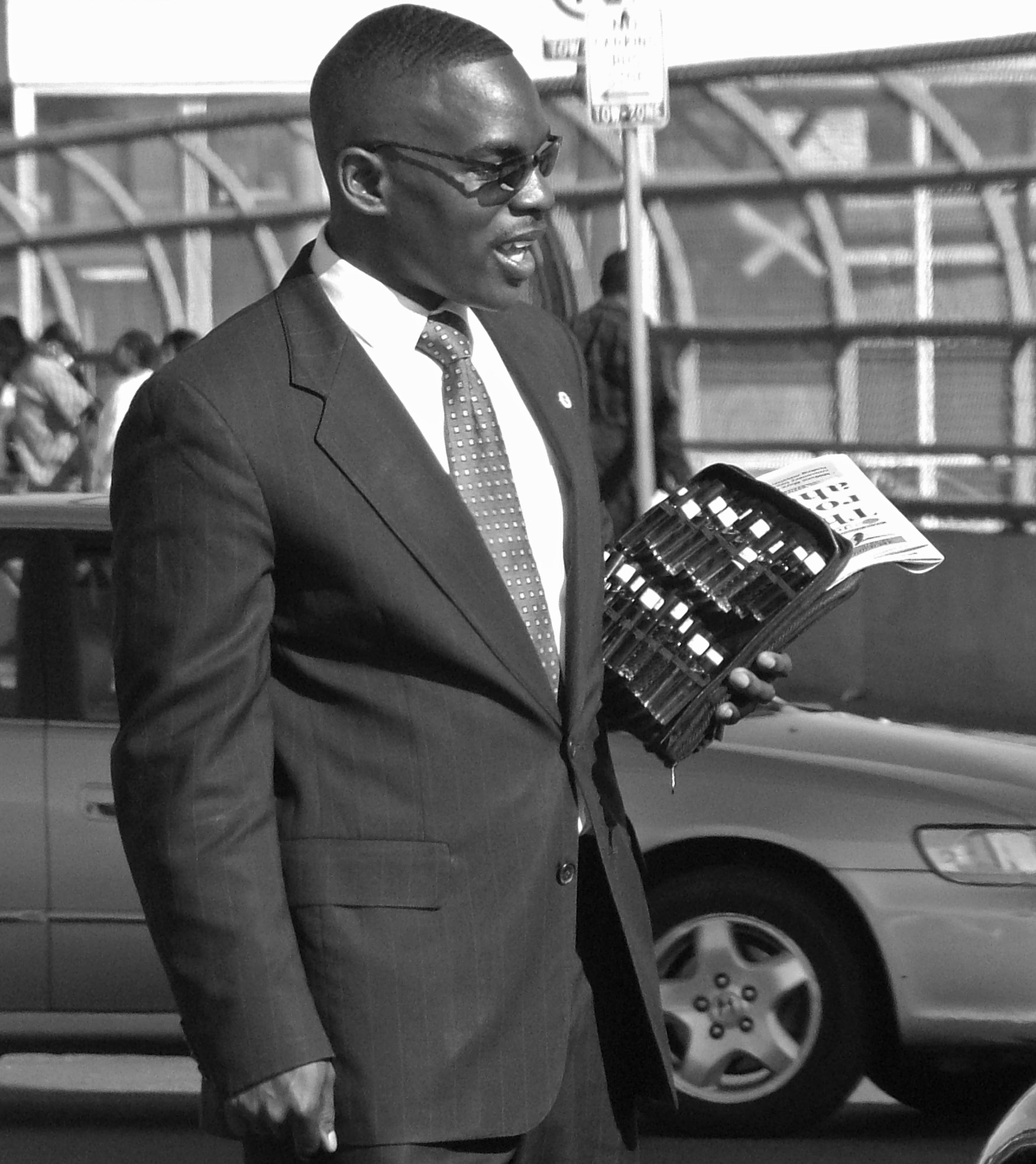 Enterprise at 87th and Lafayette - A Nation of Islam member (Fruit of Islam) sells copies of the Final Call newspaper and what appears to be an assortment of essential oils.